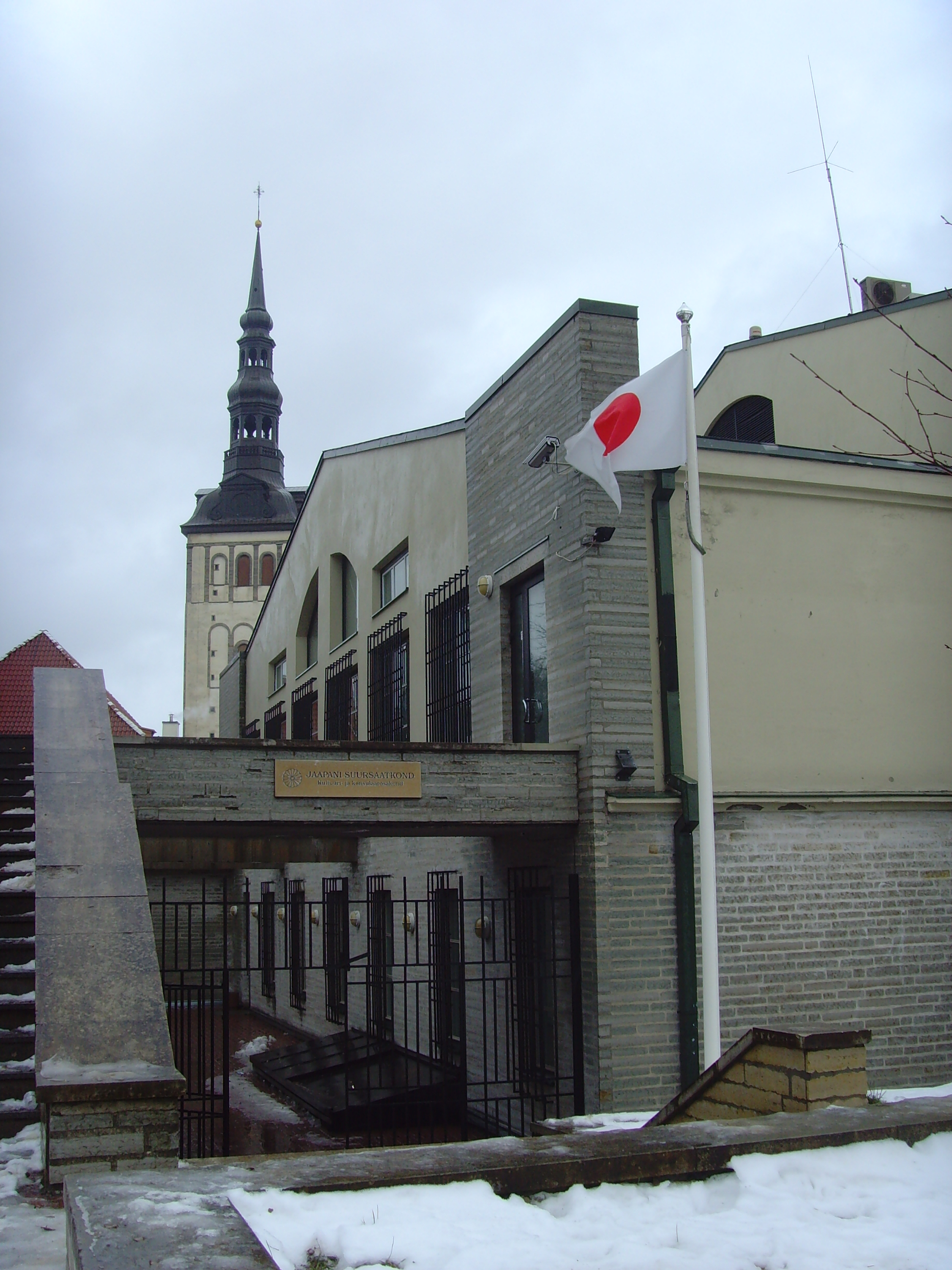 Japanese Embassy in Tallinn